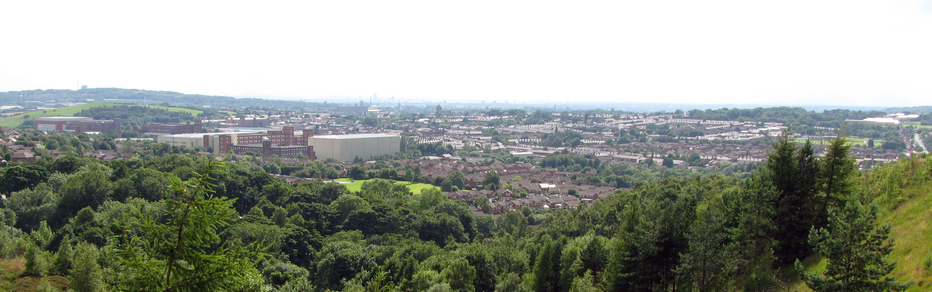 A panoramic photograph of Shaw and Crompton in Greater Manchester, England, taken from above Pingot Quarry. Manchester city centre is on the horizon.